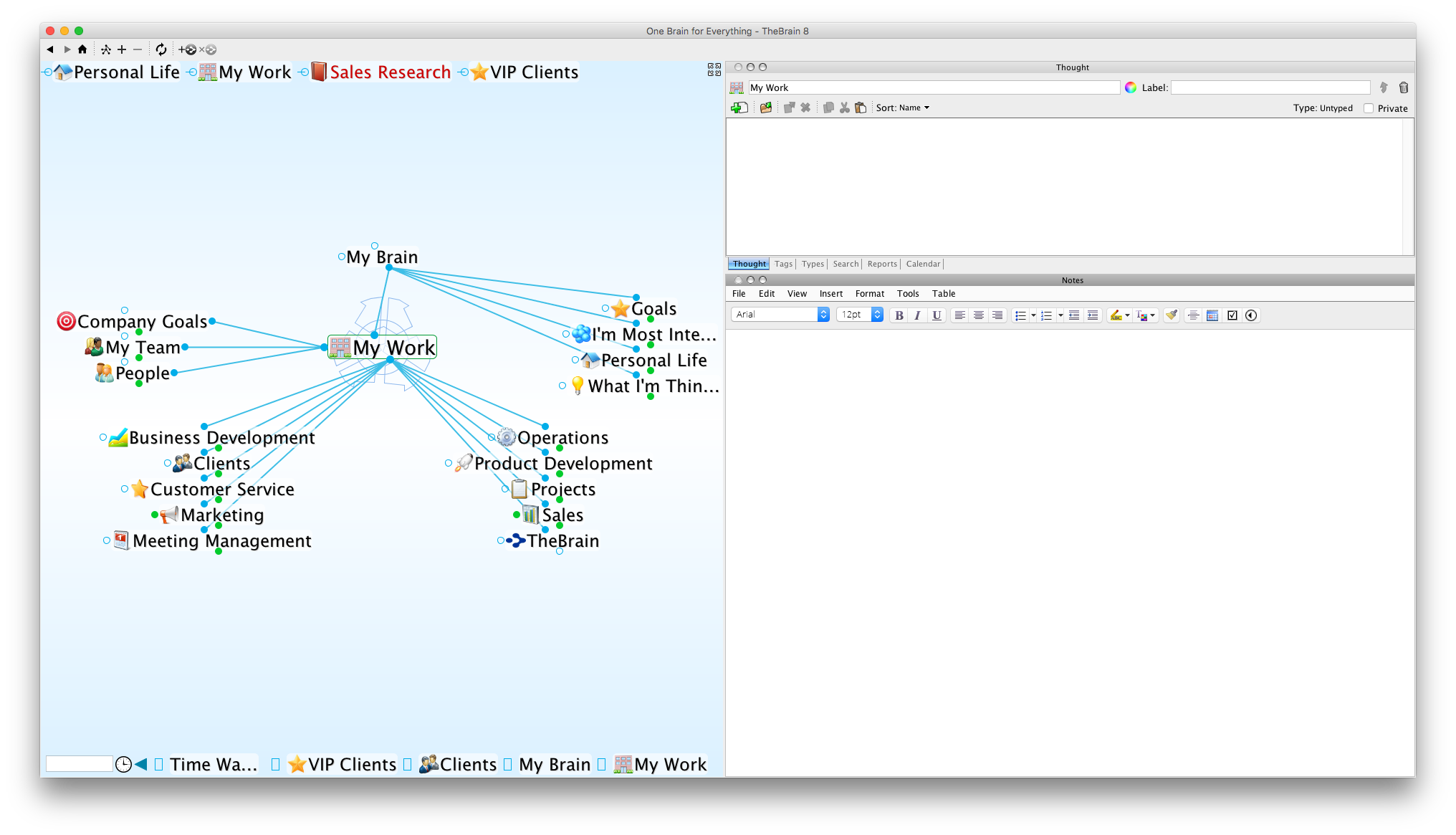 TheBrain on Mac OSX